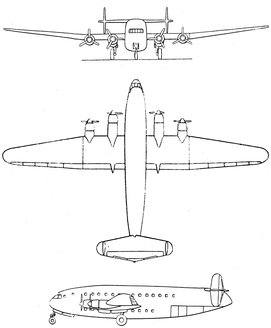 Bregeut 761 3 view (modified) L'Aerophile August 1946